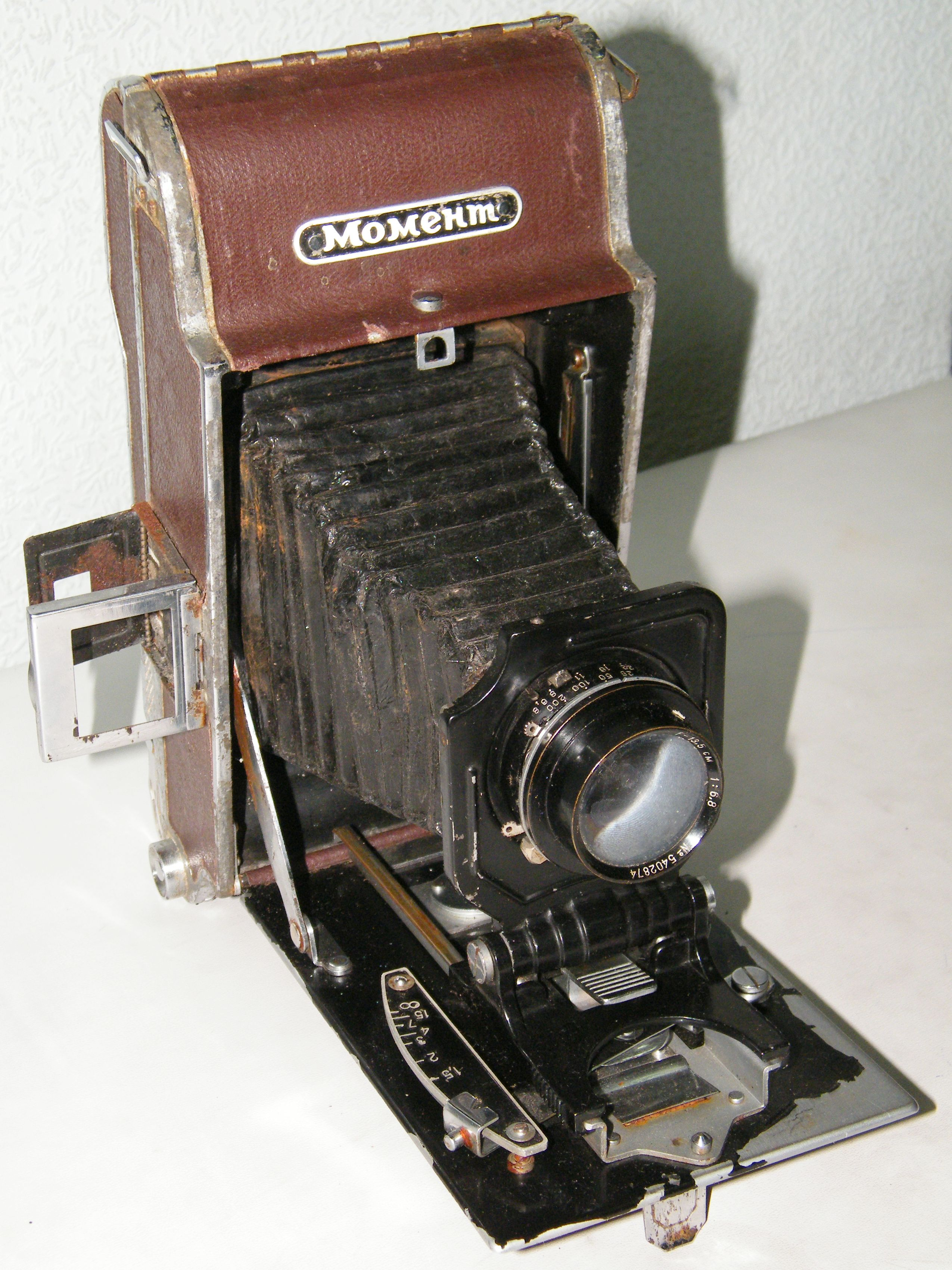 MOMENT LOMO Soviet instant camera from Evgeniy Okolov collection 1